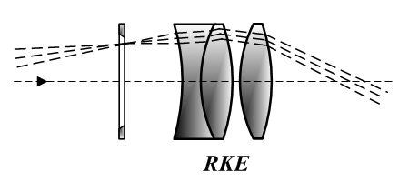 RKE eyepiece.